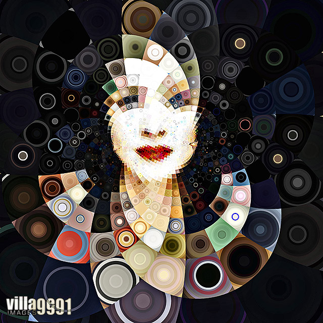 A Mosaic of Madonna